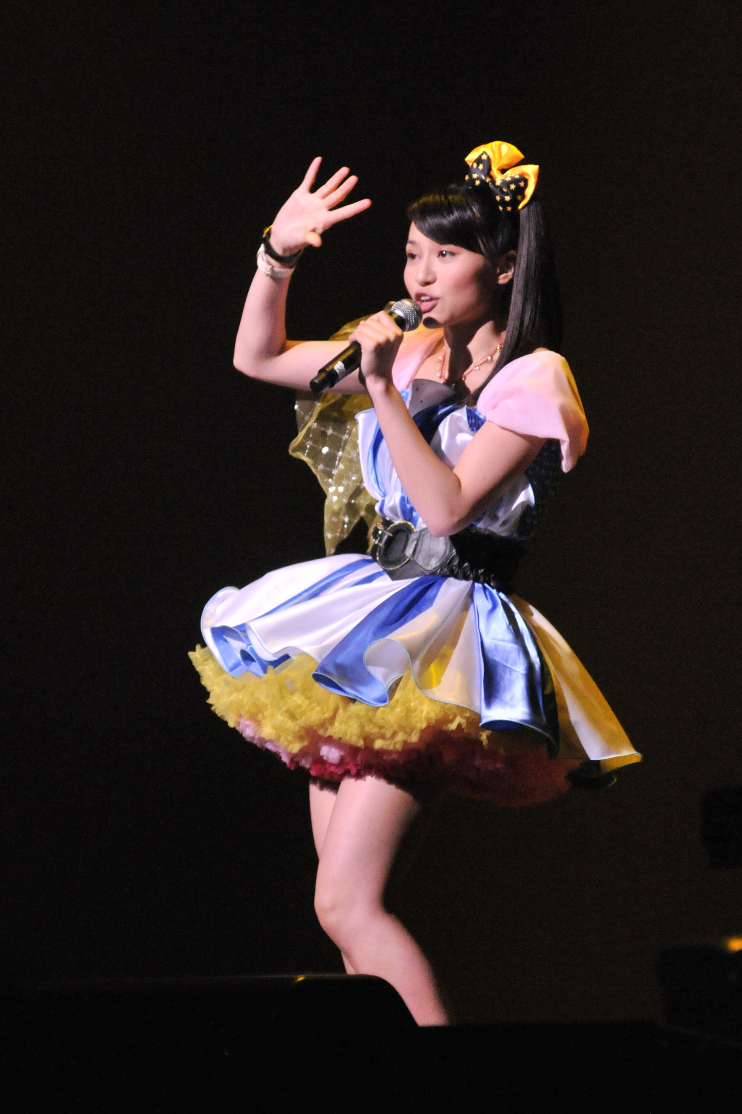 Japanese singer Megumi Nakajima performing in Los Angeles, USA Tagalog: Nagtanghal si Nakajima sa Los Angeles,California tatlong taon na ang nakakalipas.